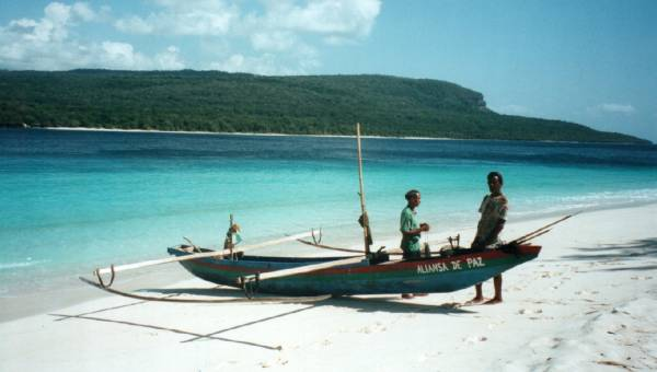 East Timor - Tutuala - Jaco Island